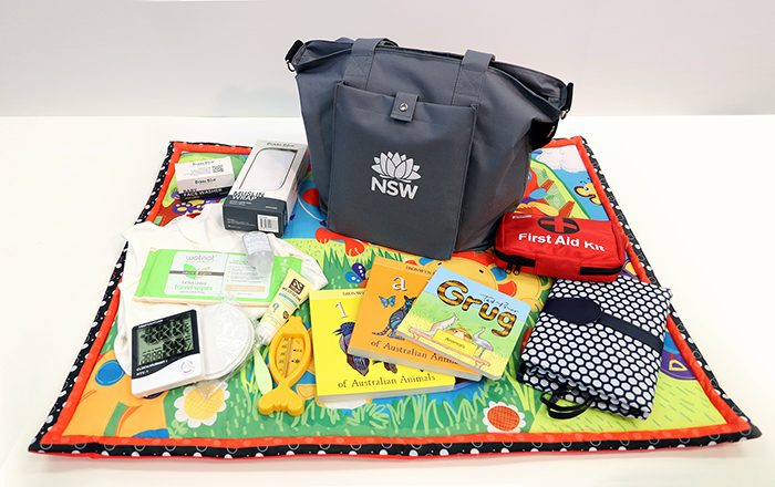 The baby bundle provided to all new parents by the Government of New South Wales, Australia, since 2019.